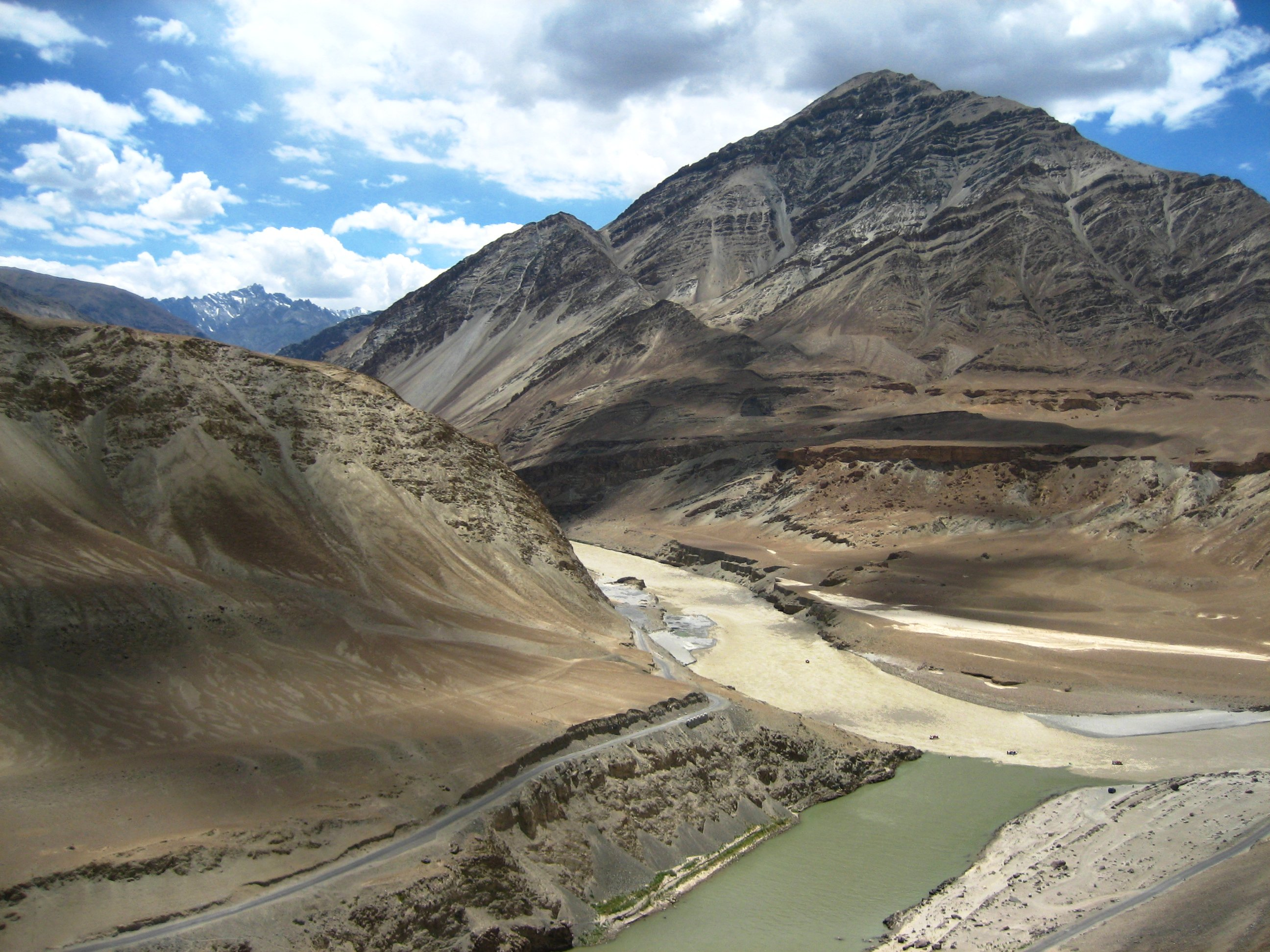 The two rivers - Zanskar and Indus joining up.Those dots on the water are the rafts we took later on ...